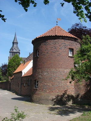 Walltower at Kranenburg